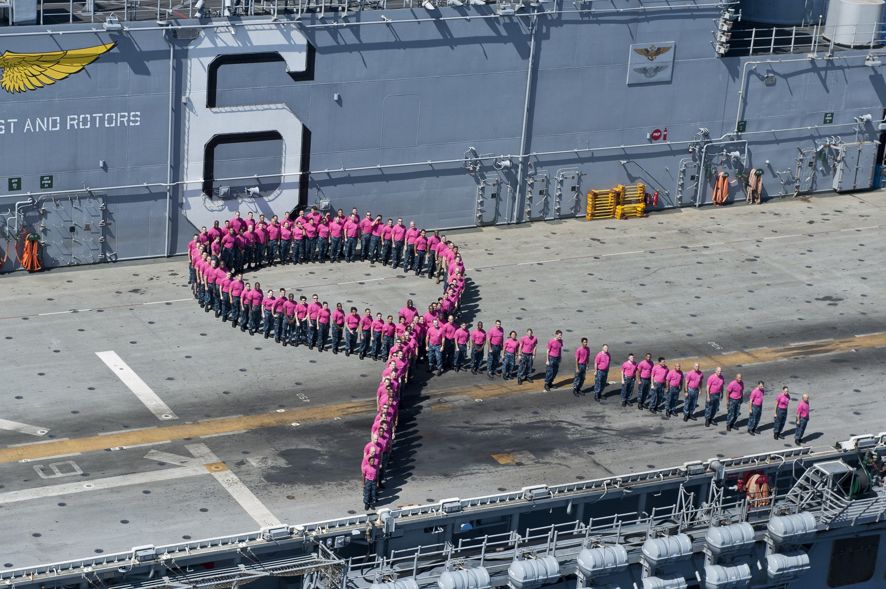 SOUTH CHINA SEA (Oct. 14, 2012) Sailors aboard the amphibious assault ship USS Bonhomme Richard (LHD 6) form a pink ribbon logo on the flight deck to show support for Breast Cancer Awareness Month. Bonhomme Richard is participating in Amphibious Landing Exercise (PHIBLEX) 2013 with the armed forces of the Republic of the Philippines. The U.S. Navy has a 237-year heritage of defending freedom and projecting and protecting U.S. interests around the globe. Join the conversation on social media using #warfighting. (U.S. Navy photo by Mass Communication Specialist 2nd Class Adam M. Bennett/Released) 121014-N-SO729-518 Join the conversation navylive.dodlive.mil